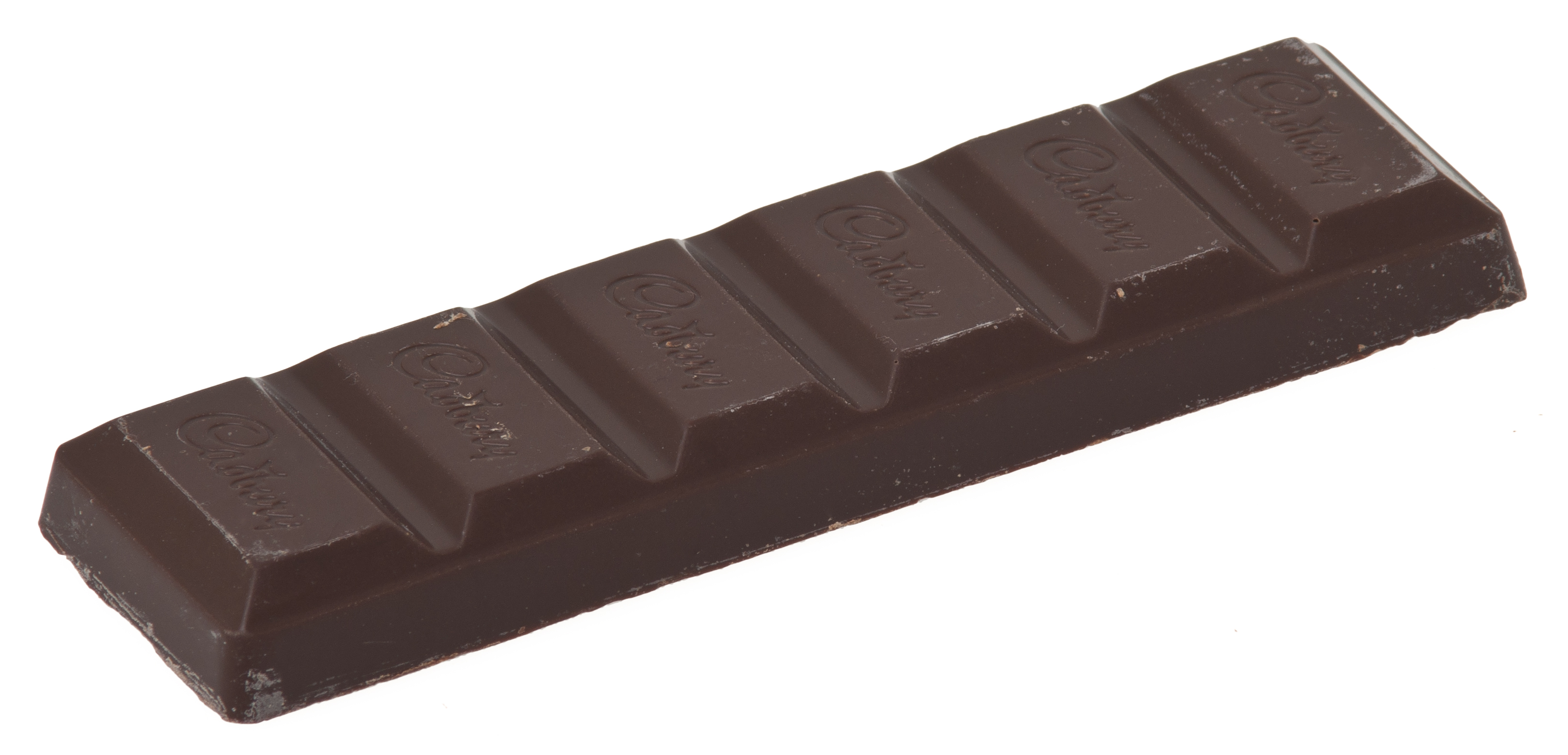 A Cadbury Bournville, a dark chocolate candy bar sold in the UK.